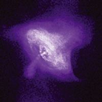 Pulsar